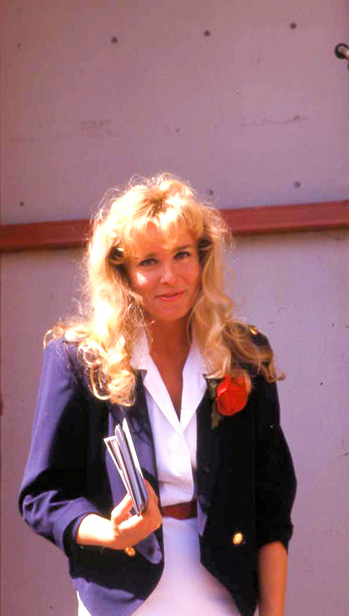 Armi Aavikko